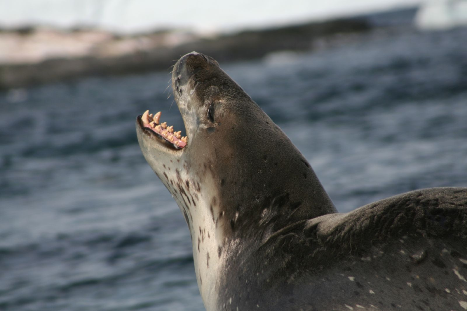 A leopard seal growling while sitting on the shore in Antarctica.